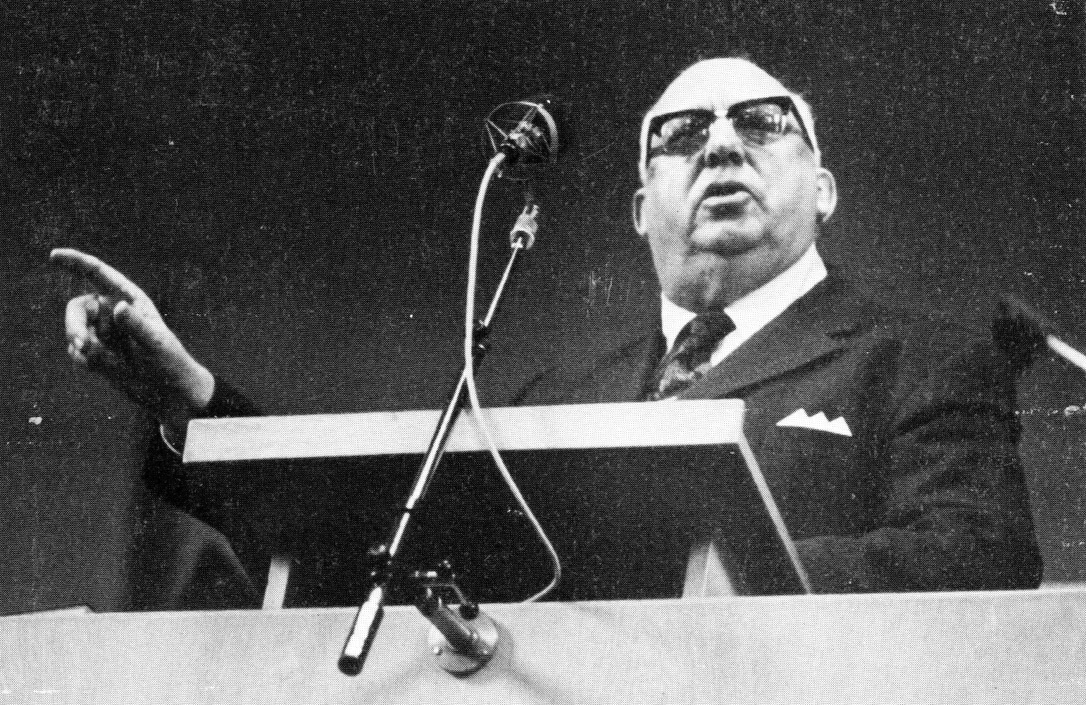 Gerog Gustafsson (pastor)